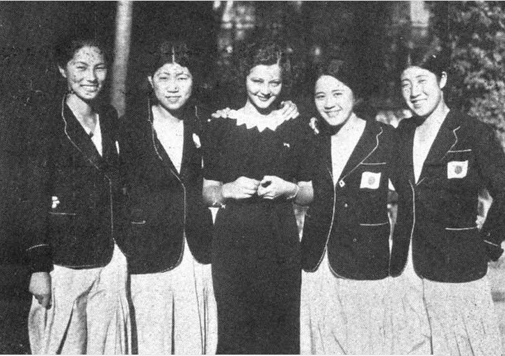 Japan 400m runners and Sylvia Sydney: Asa Dogura, Nakanishi, Sylvia Sidney, Mie Muraoka, Watanabe